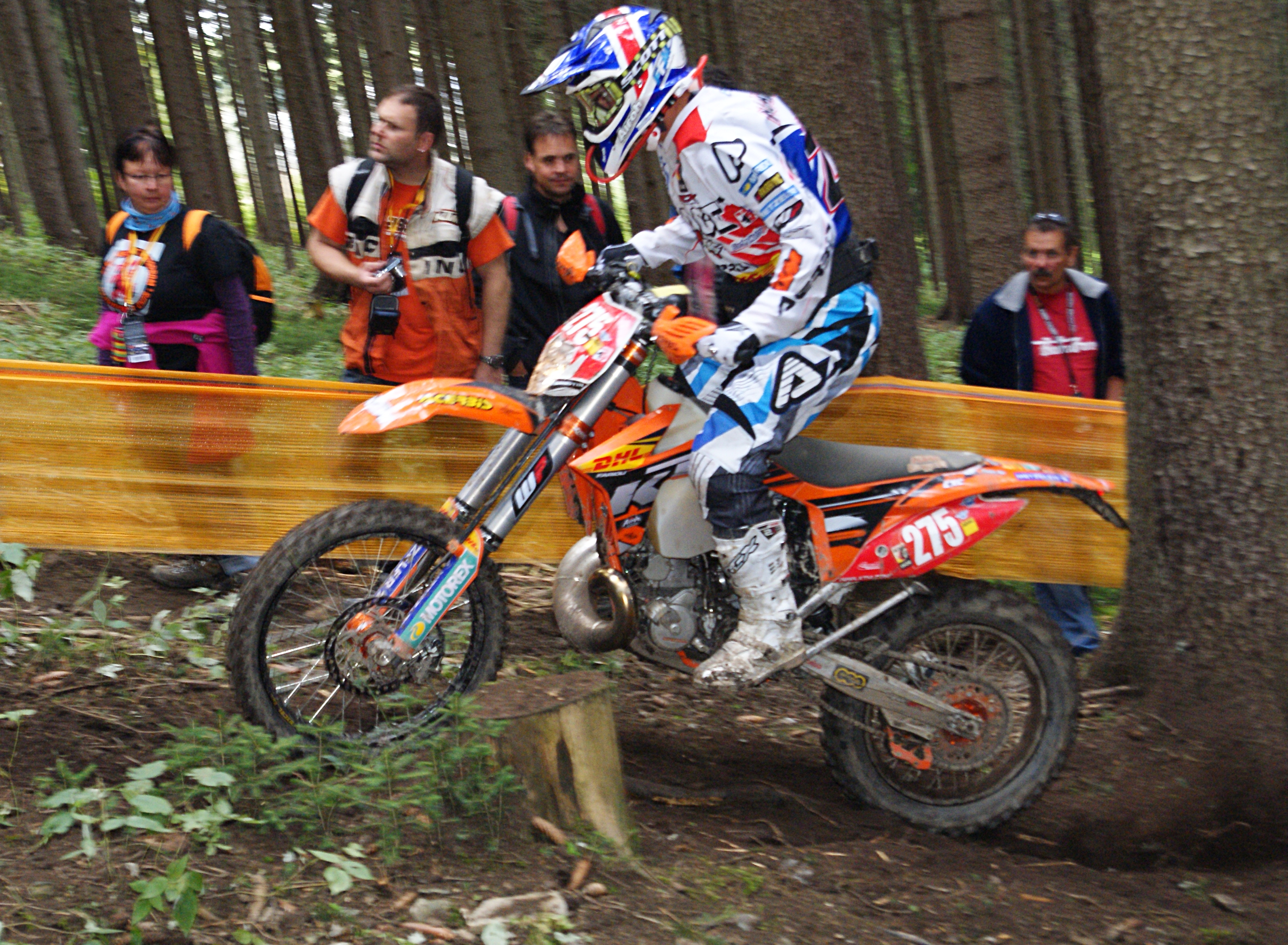 The making of this document was supported by the Community-Budget of Wikimedia Germany. 87. ISDE Germany Day 1 Steep Hill Hormersdorf Christophe Nambotin Trophy Team France